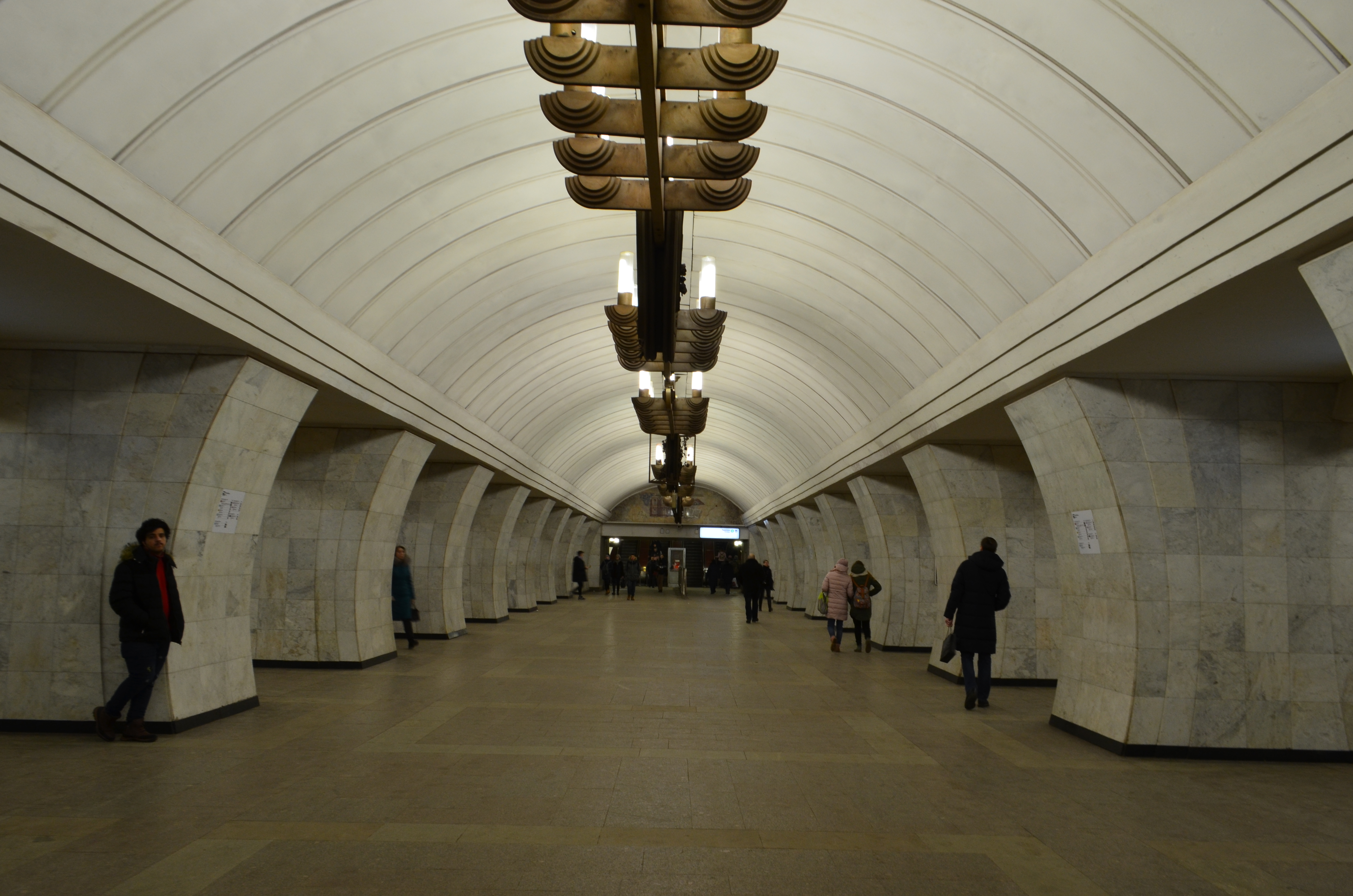 Chekhovskaya station in Moscow in 2020.